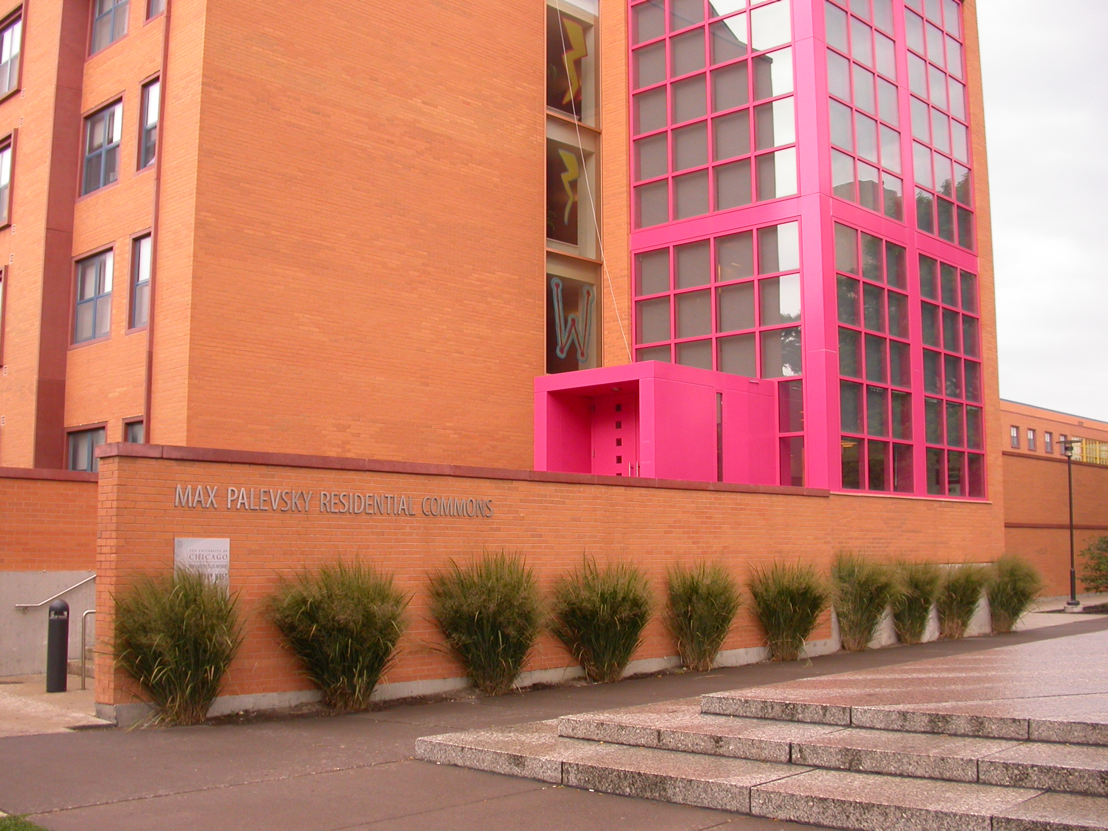 The rest of the University of Chicago is built in a traditional Gothic or neo-Gothic style; pretty much all gray stone, black metal trimming, or oxidized copper and brass. Except these ridiculous new dorms.